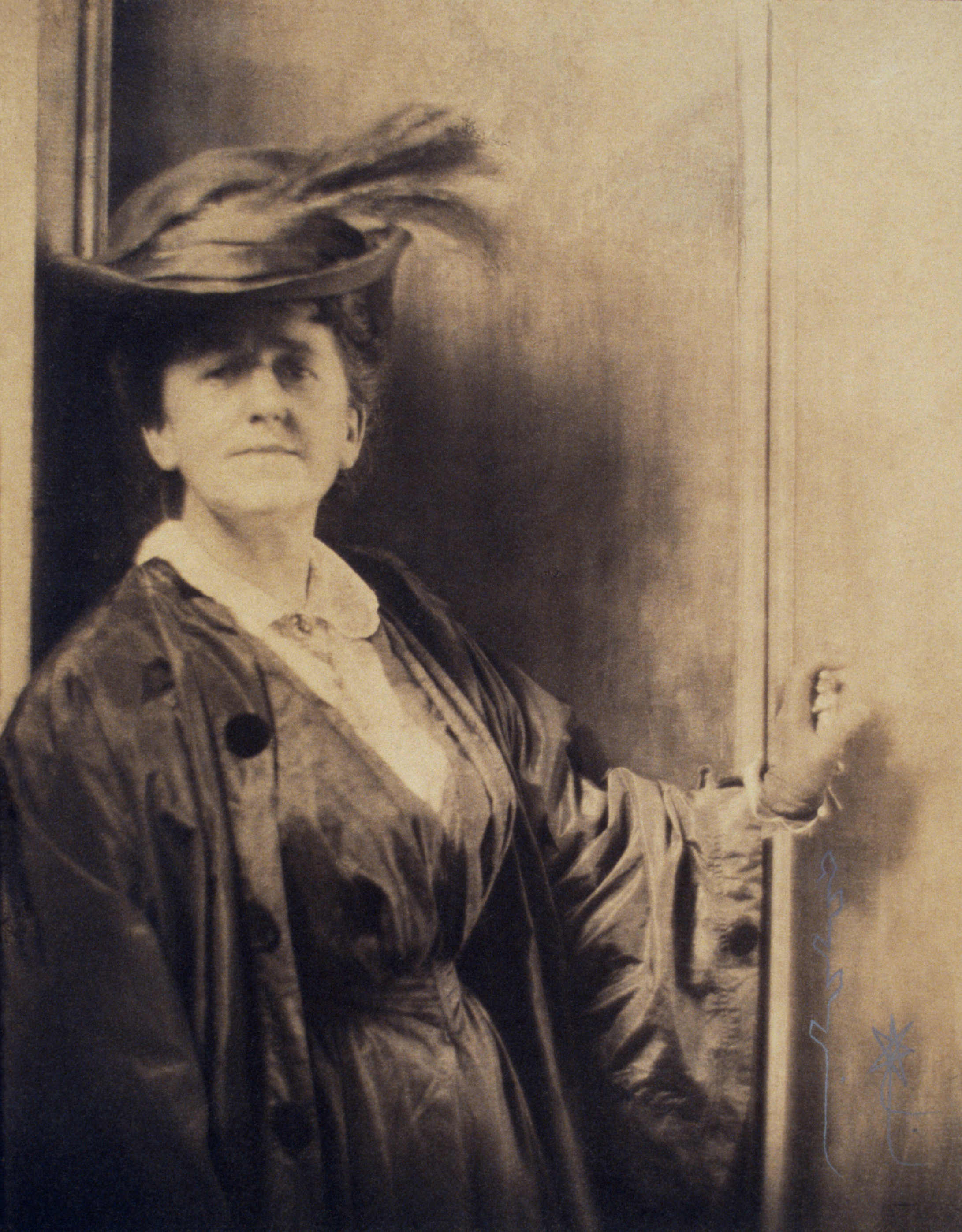 Gertrude Käsebier by Baron Adolf de Meyer (1868–1946)